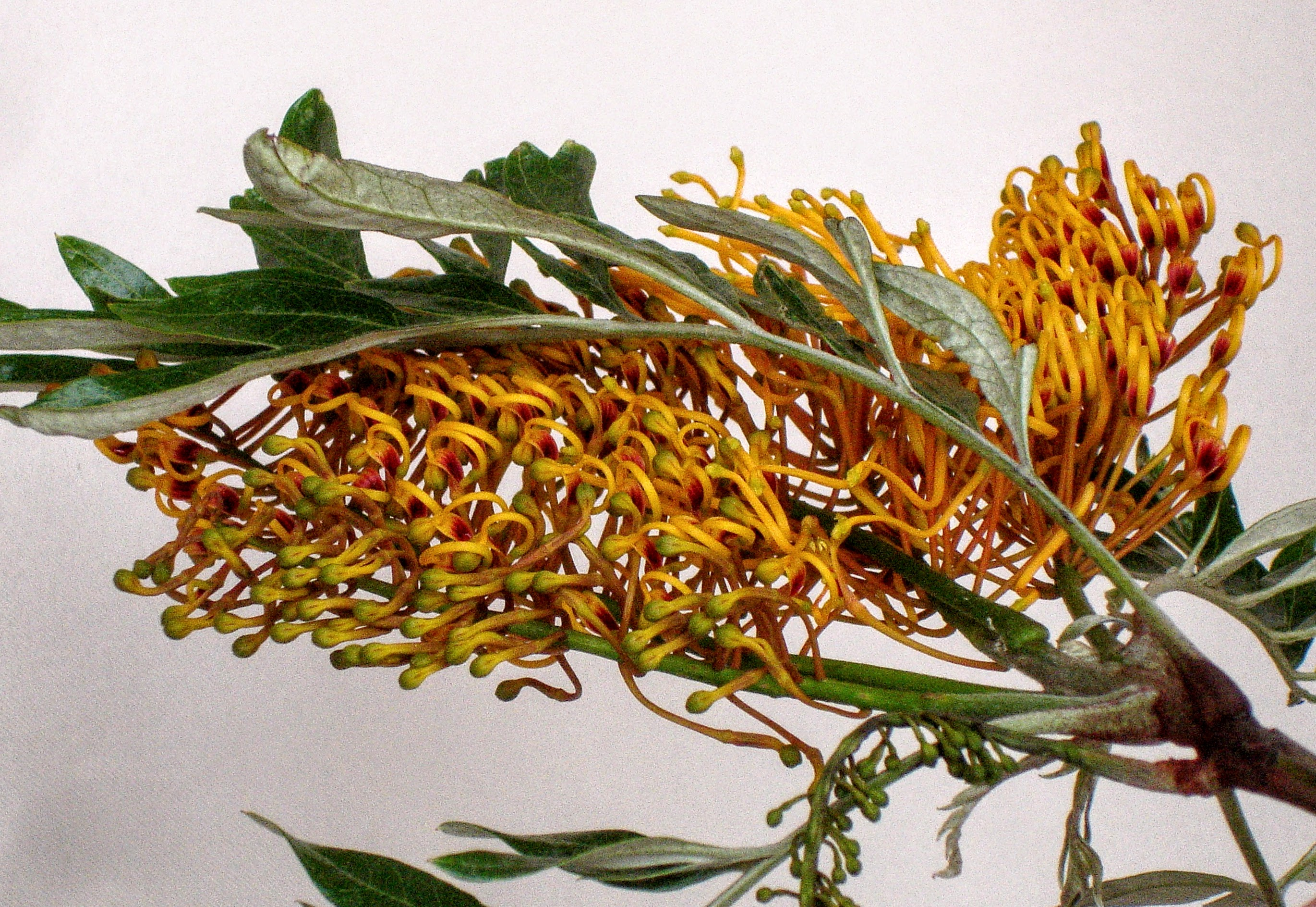 several flowering stages, Lisbon